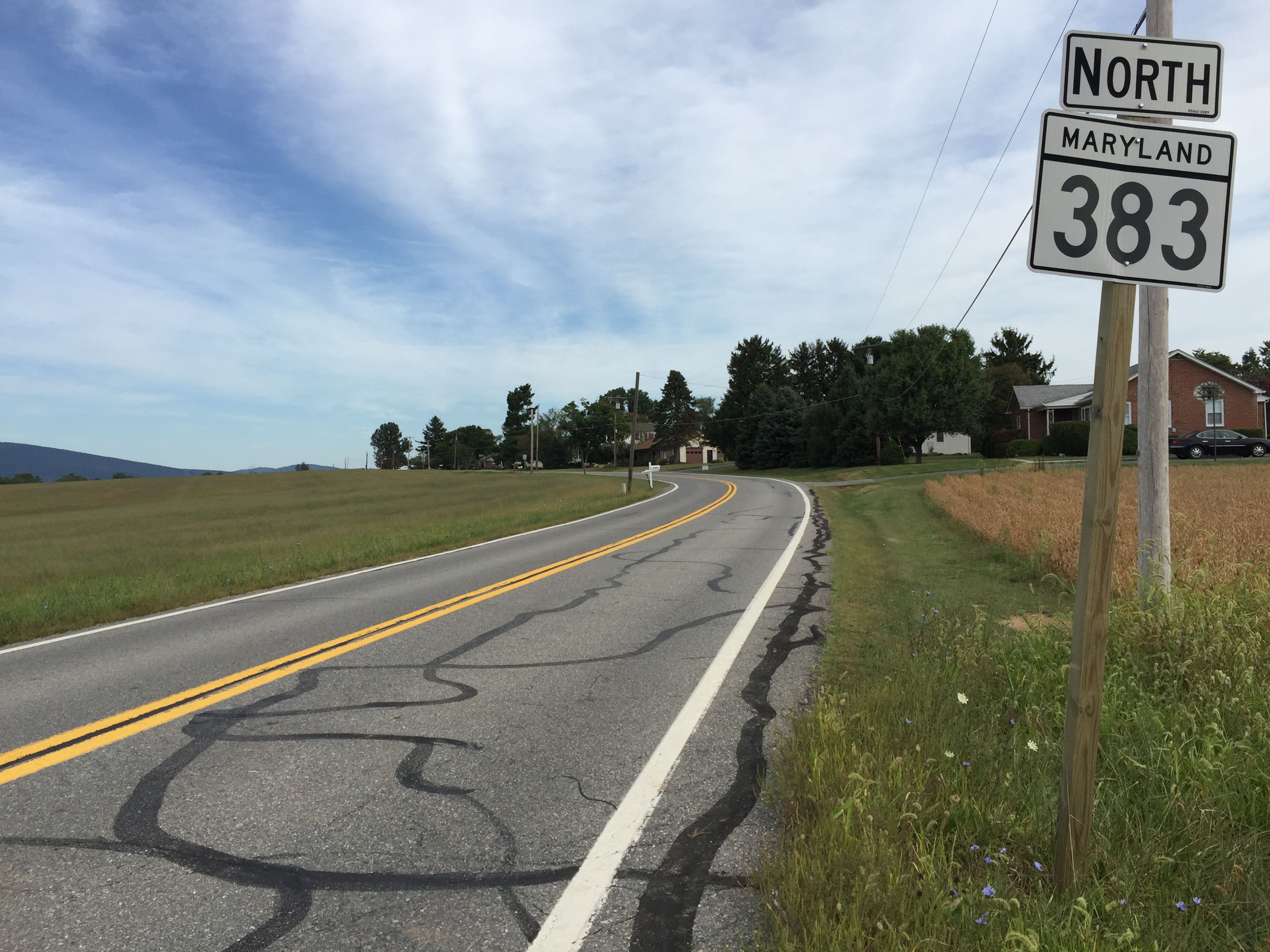 View north along Maryland State Route 383 (Broad Run Road) just north of Gapland Road in southwestern Frederick County, Maryland